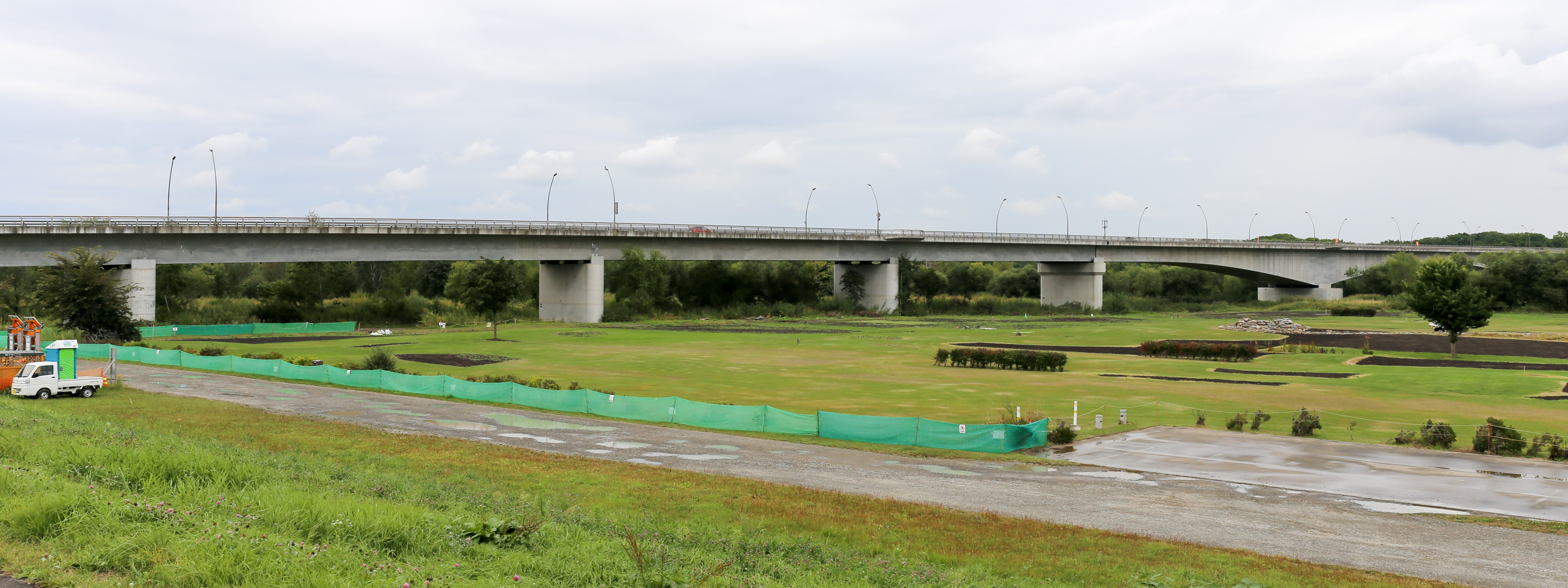 Suzuran Bridge (Suzuran Ohashi) over the Tokachi River, linking Obihiro City and Otofuke Town, Hokkaido, Japan, viewed from Obihiro side